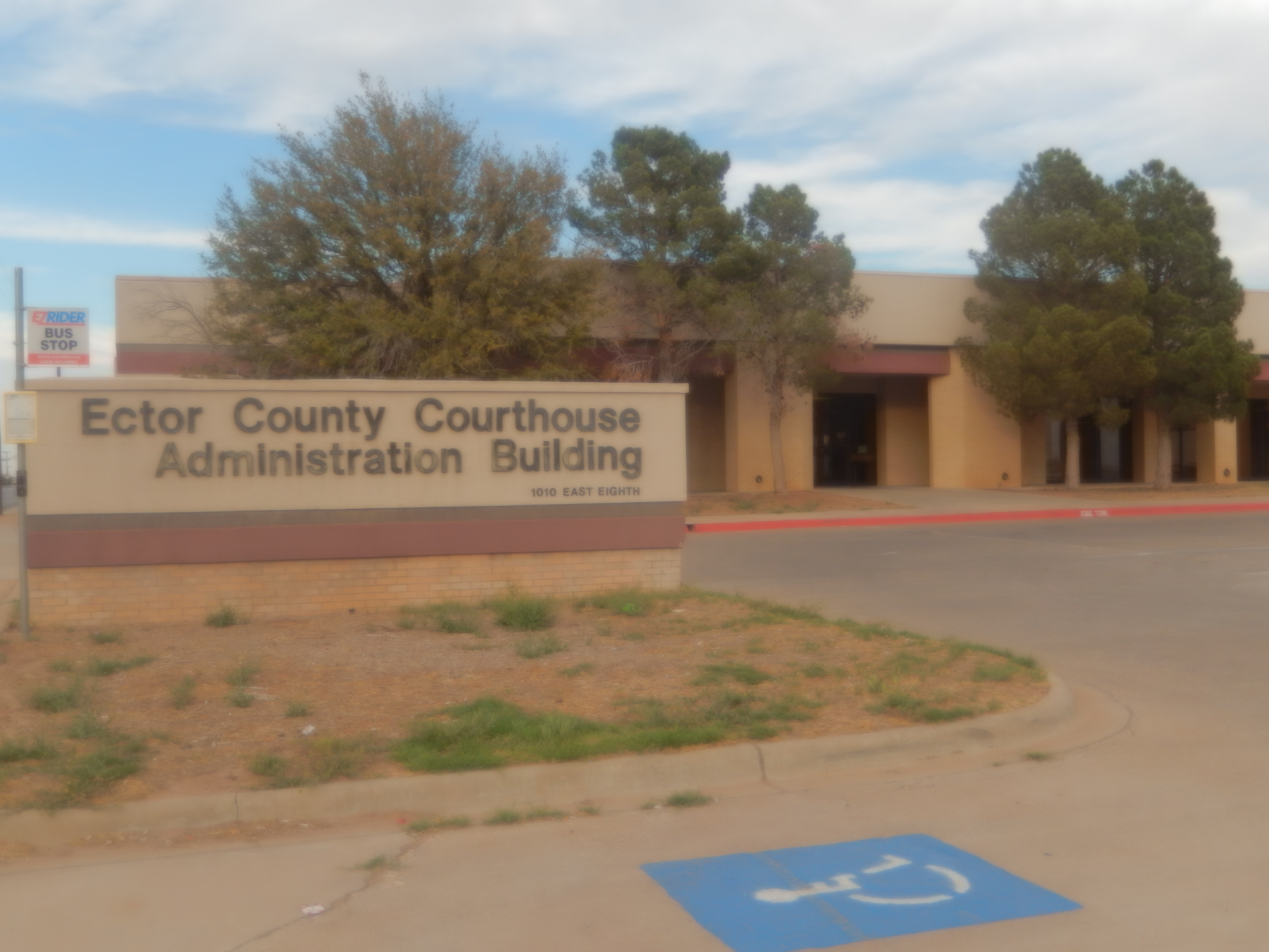 I took photo of Ector County, TX, Courthouse Administration Building in Odessa, TX, with Nikon camera.